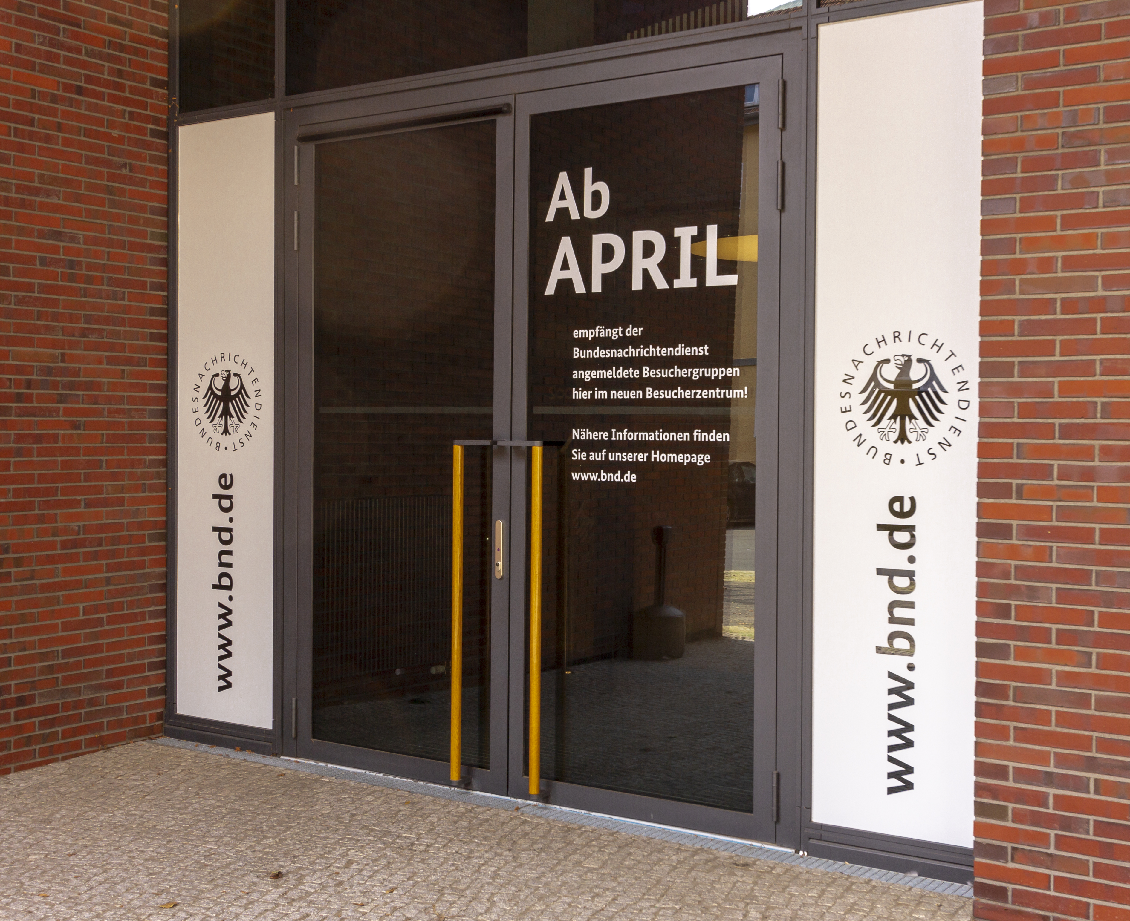 Headquarters of the Federal Intelligence Service of the Federal Intelligence Service in Berlin.